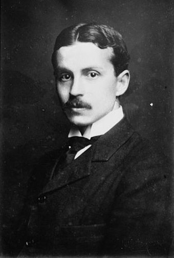 Francis Welch Crowninshield (1872–1947), American journalist, art and theatre critic, and editor the magazine Vanity Fair